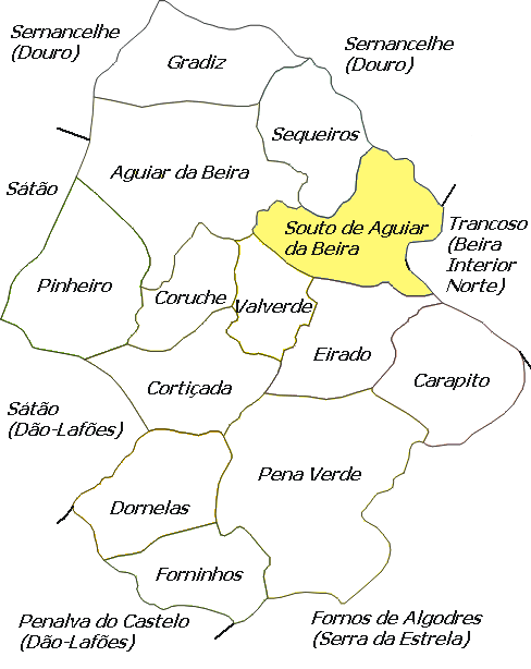 Map of Souto de Aguiar da Beira parish in Portugal. Author: Kullanıcı:Mskyrider.